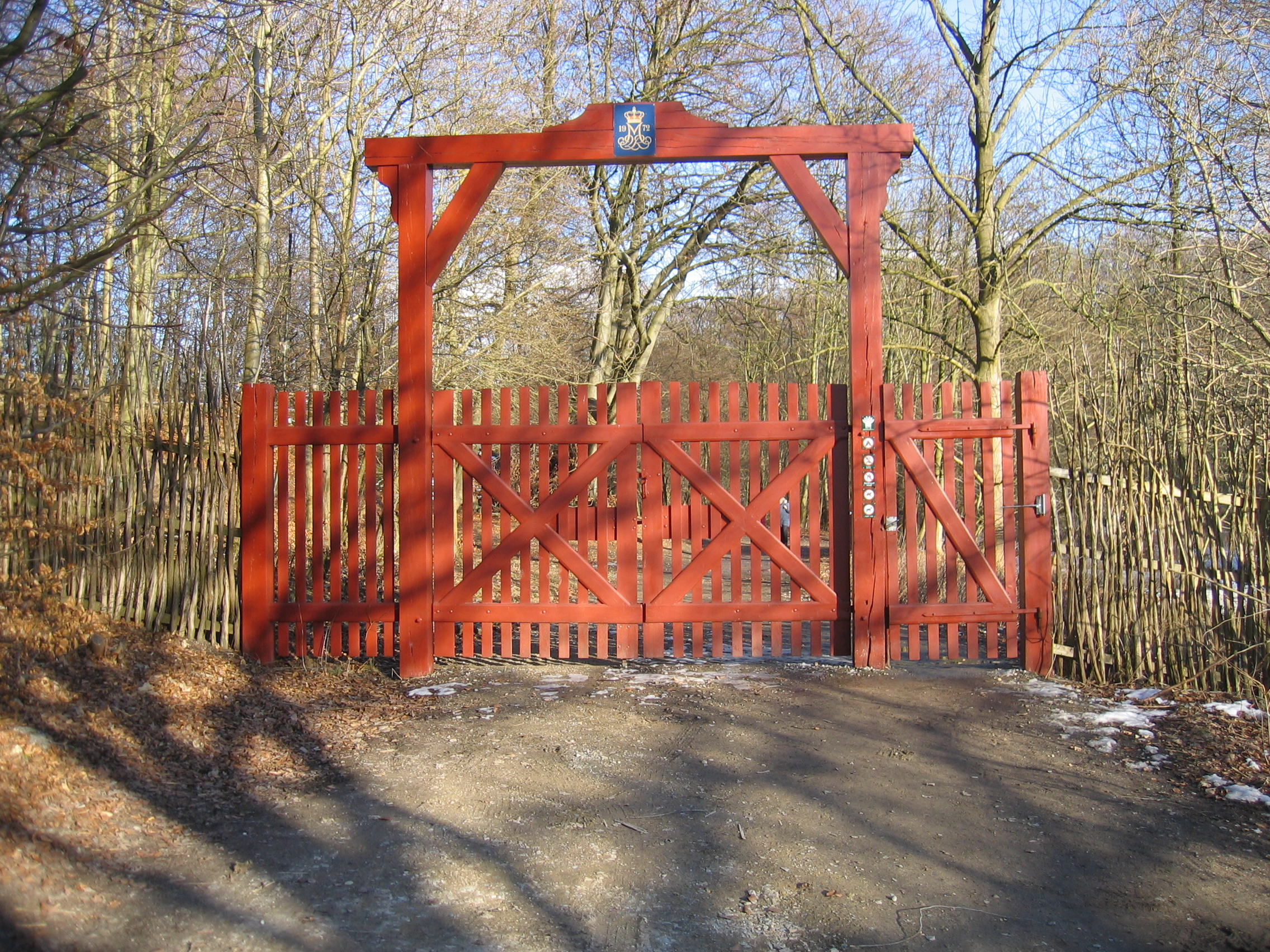 Port at Rådvad inn, Jægersborg Deer park, Denmark